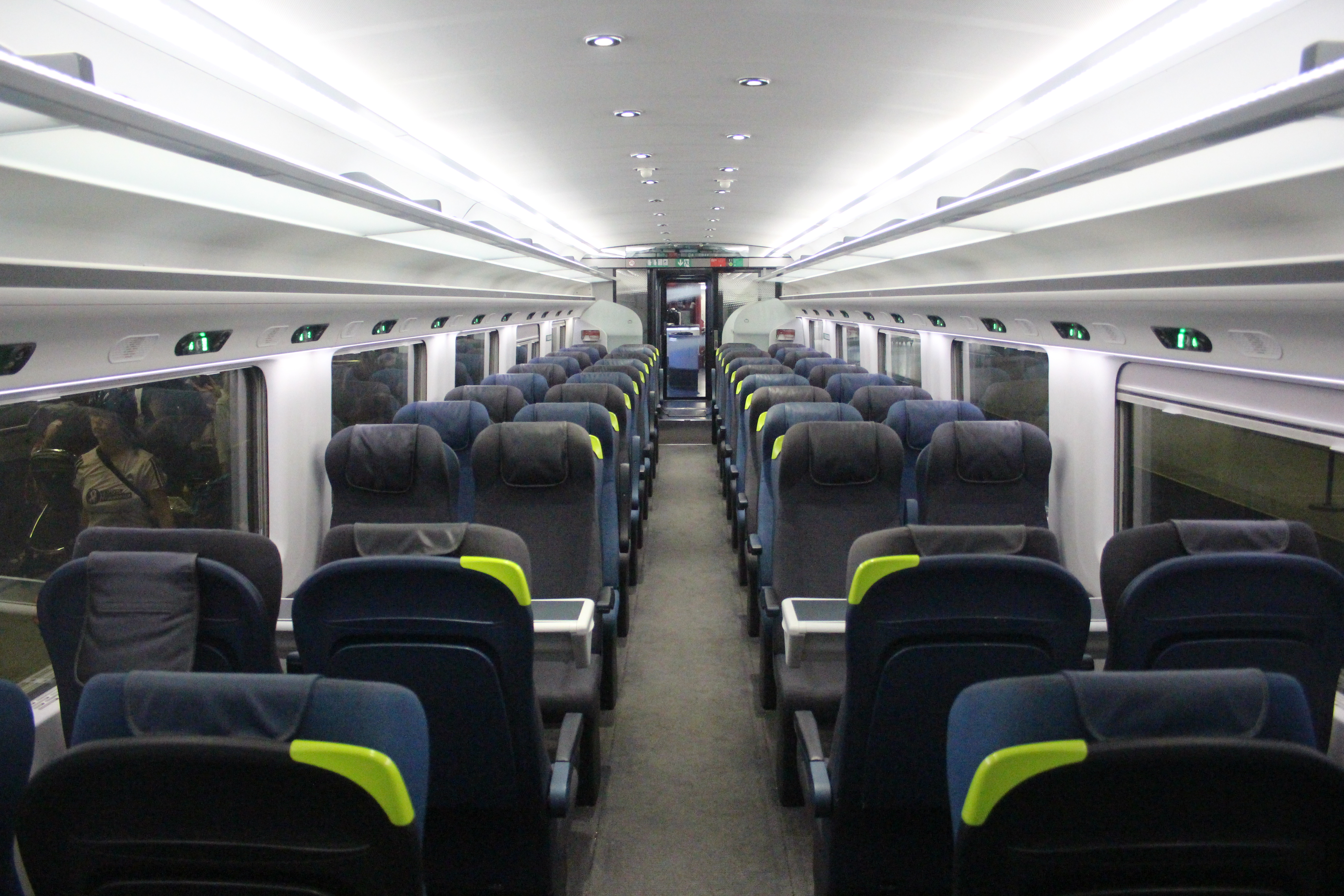 The refurbished interior of a Class 373 in Standard Class, this train fleet is now named as Eurostar e300, to distinguish it from the newer Class 374 Eurostar e320 fleet.